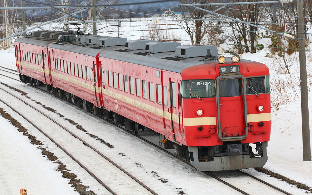 JR Hokkaido's JNR 711 series EMU ( Bibai Stn. - Koushunai Stn. )